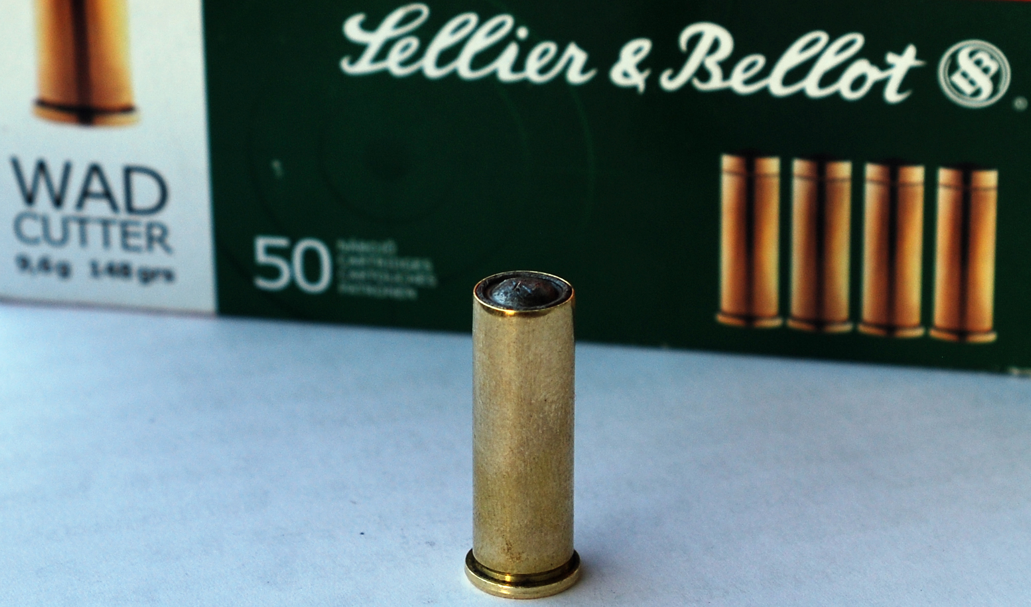 Detail of Wad Cutter version of .38 Special caliber. This version has a homogeneous lead bullet. This type of projectile is best for target training and competitions due it's ability to create smooth rounded holes in paper. This bullets have significatly smaller energy than all the other types.